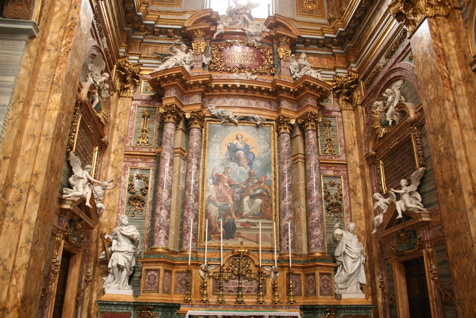 Right Transept of the Basilica Santi Ambrogio e Carlo al Corso in Rome. Altar of the Immaculate Conception